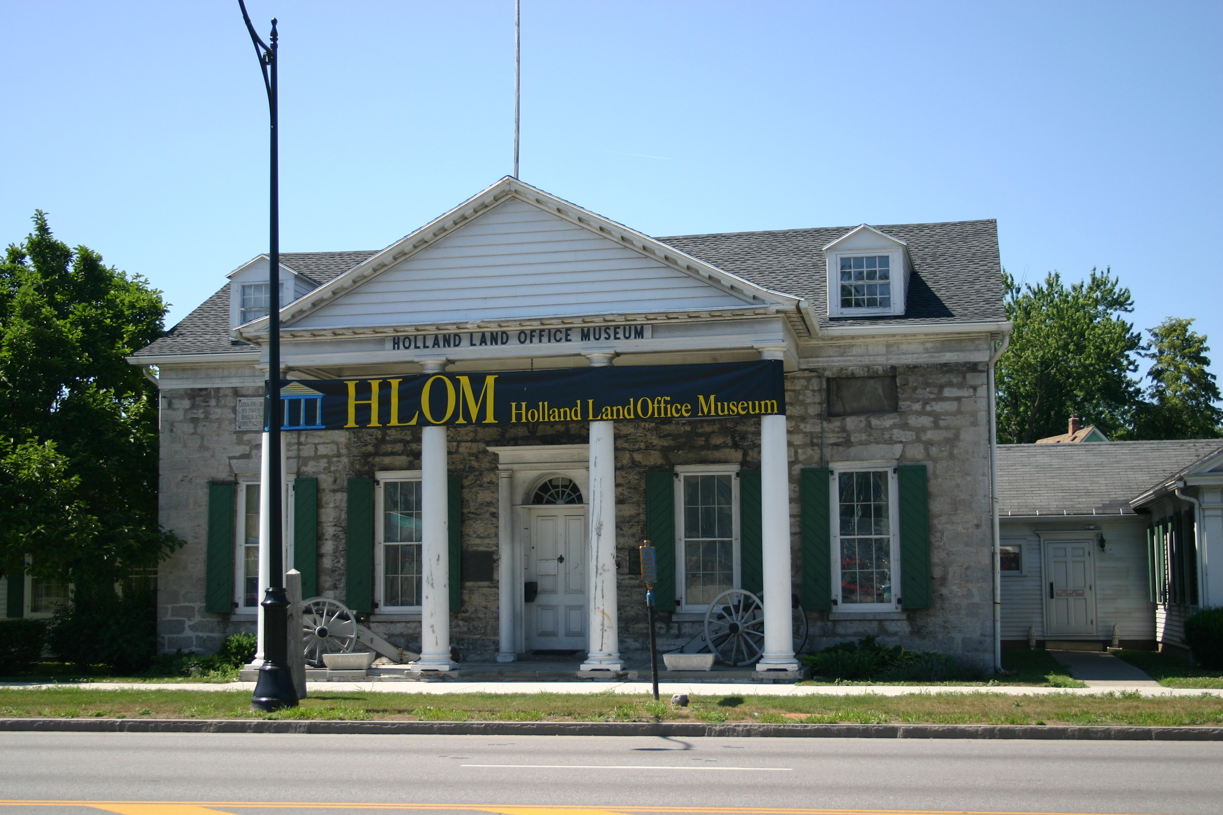 The Holland Land Company Office is now a museum in Batavia Image copyleft: Image taken by me, released under GFDL Pollinator 13:57, August 3, 2005 (UTC)